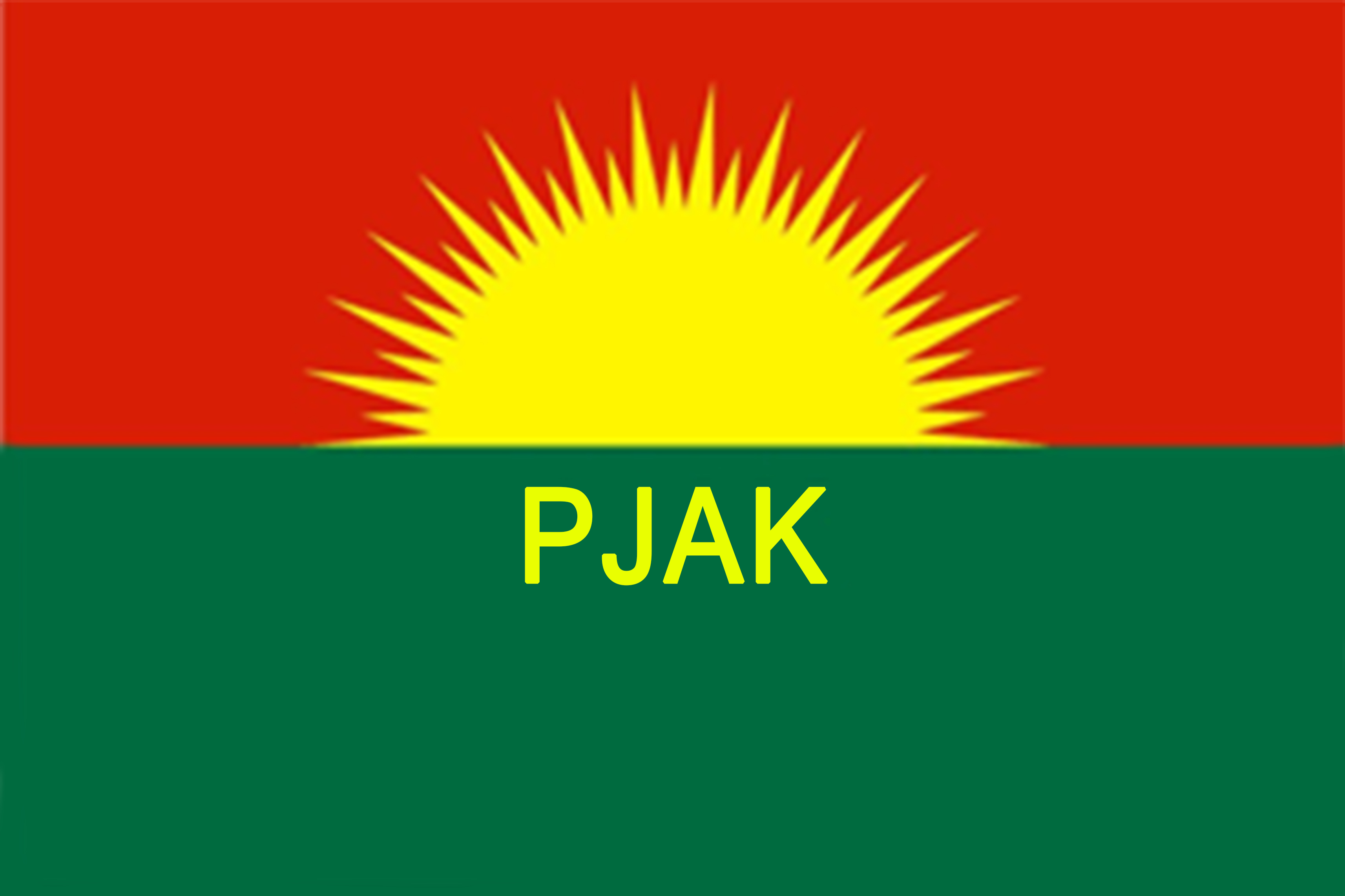 The flag of Party of Free Life of KurdistanKurdî: ئاڵای پارتی ژیانی ئازادی کوردستان - پژاک